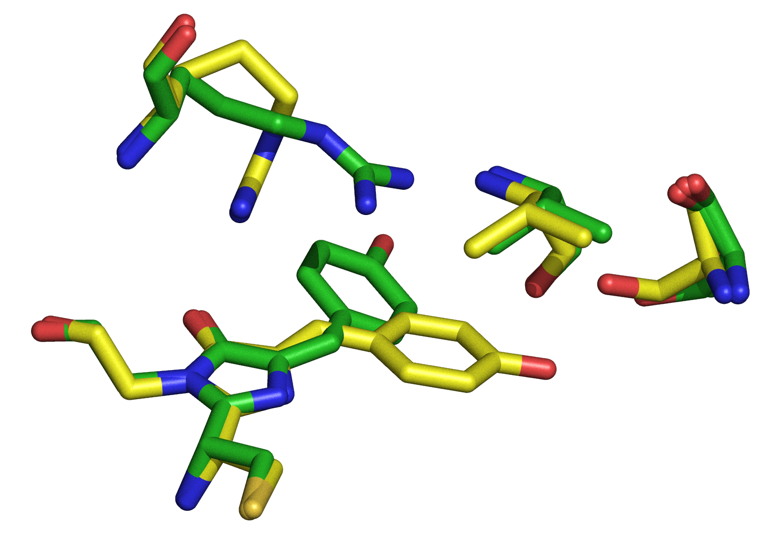 On-cis (green) and Off-trans (yellow) states of the dronpa florescent protein chromophore. nearby residues that move are also shown. Clockwise from the top: Arg66, Val157, Ser142, Cys-Tyr-Gly chromophore. Dark state from Template:Cite doi and bright state from Template:Cite doi. Image constructed using Pymol